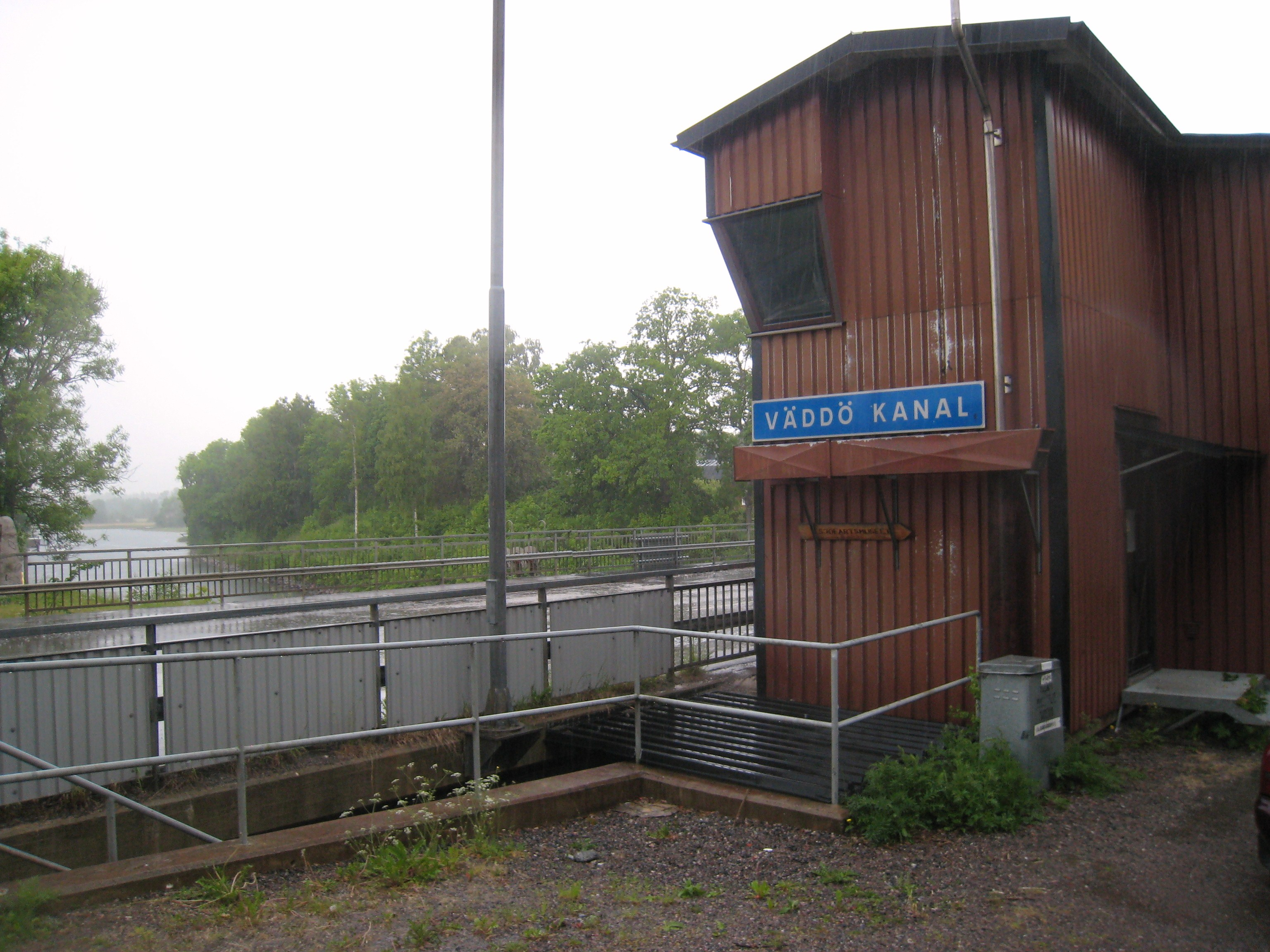 The lock at the Väddö kanal, Älmsta, Norrtälje Municipality, Sweden